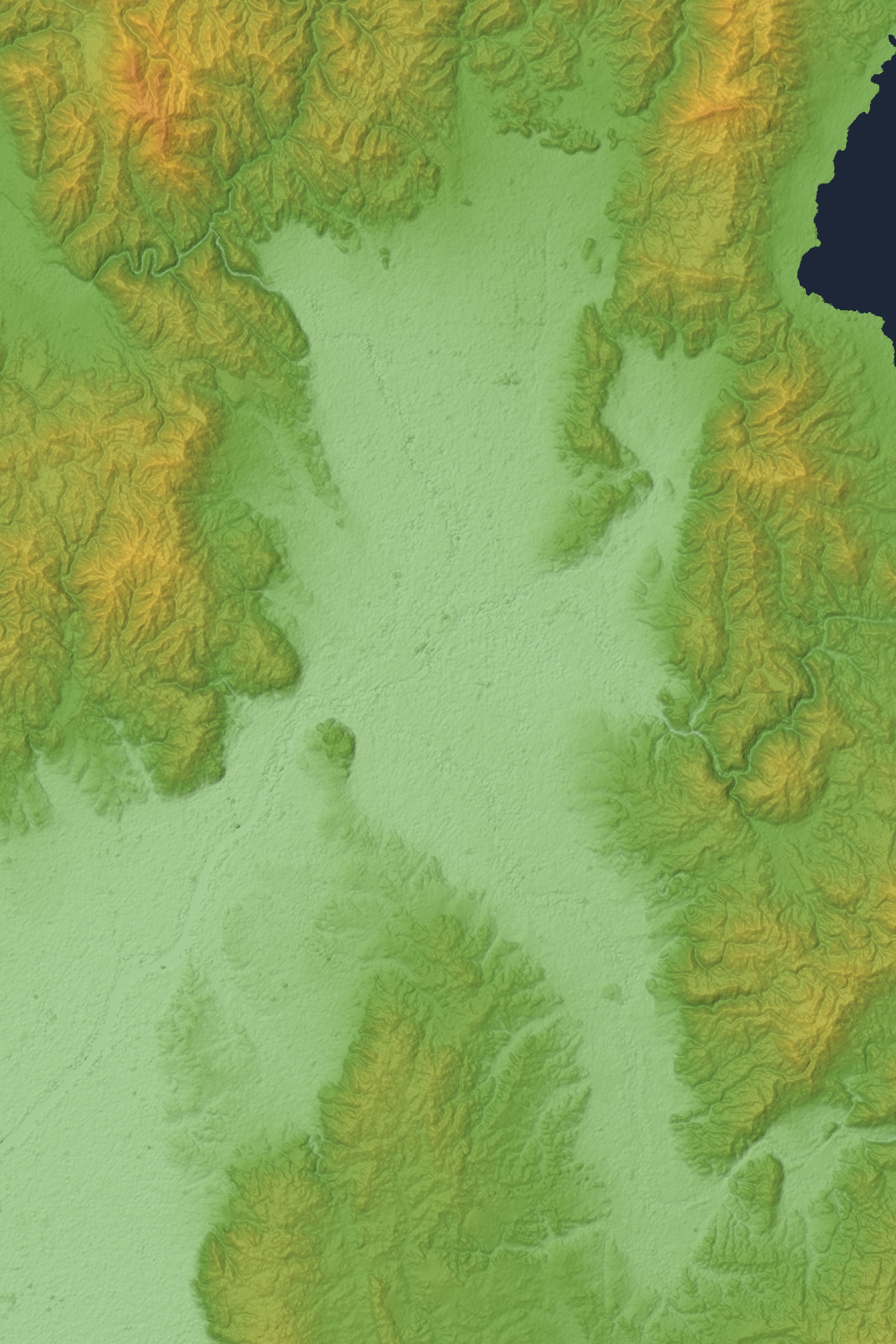 Kyoto Basin in Kyoto Prefecture, Honshu, Japan.